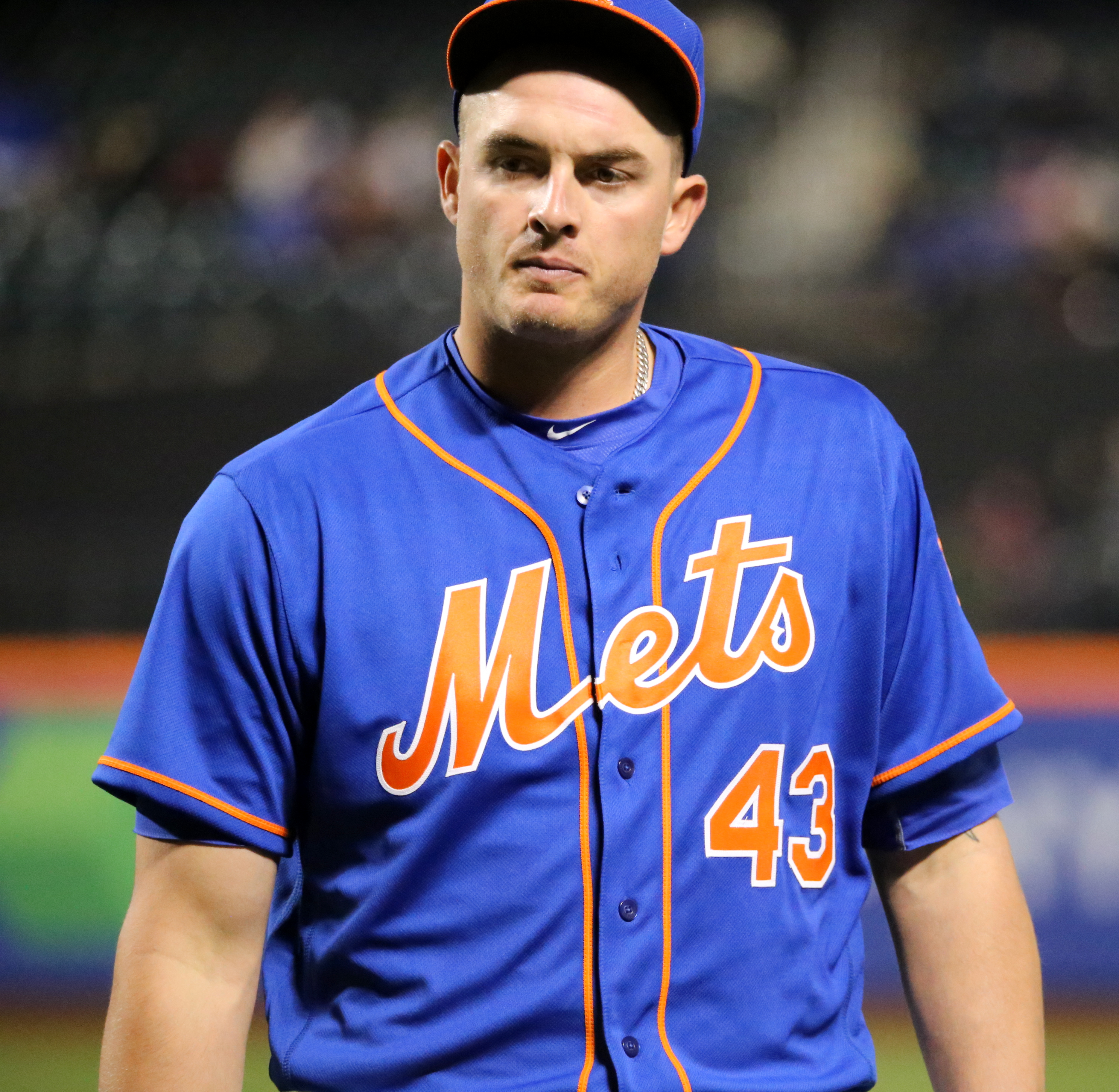 Addison Reed with the New York Mets, April 11, 2016.